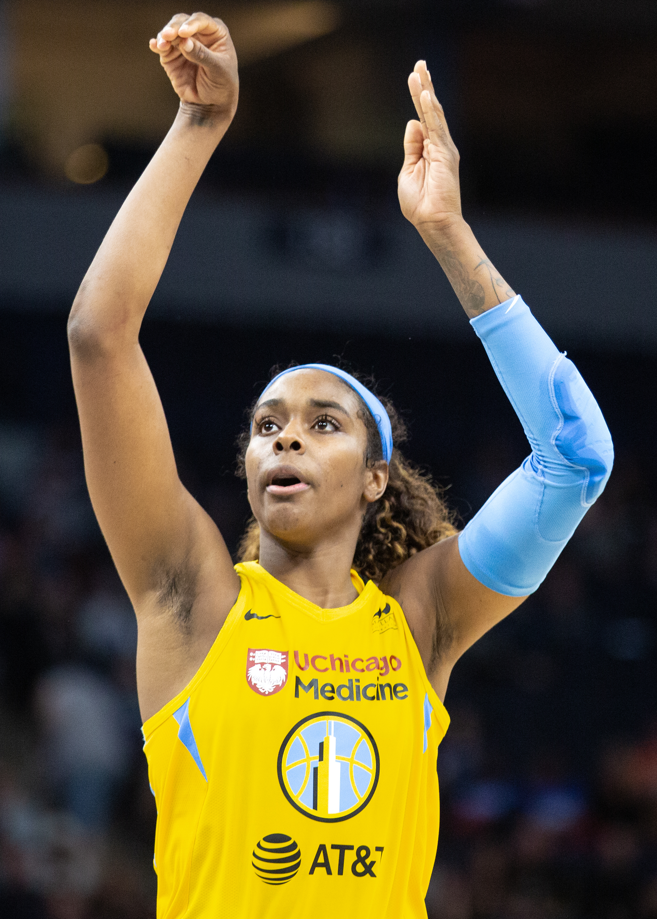 Chicago Sky player Cheyenne Parker shooting a foul shot